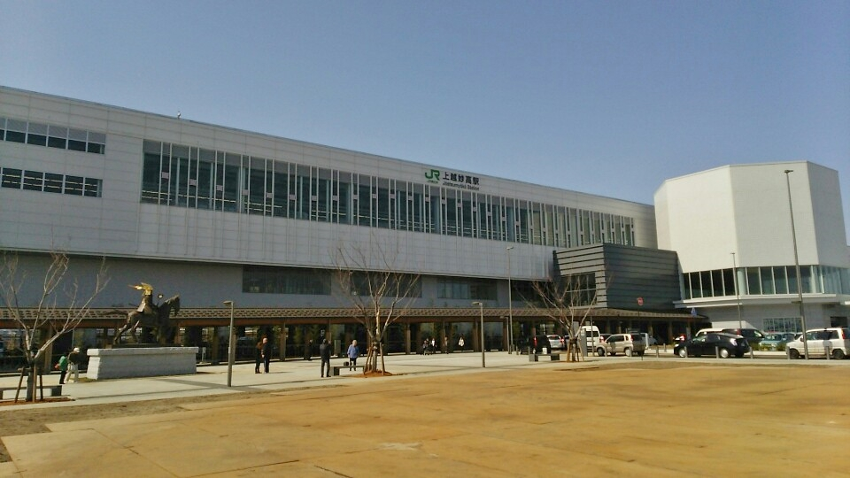 Jōetsumyōkō Station on the Hokuriku Shinkansen